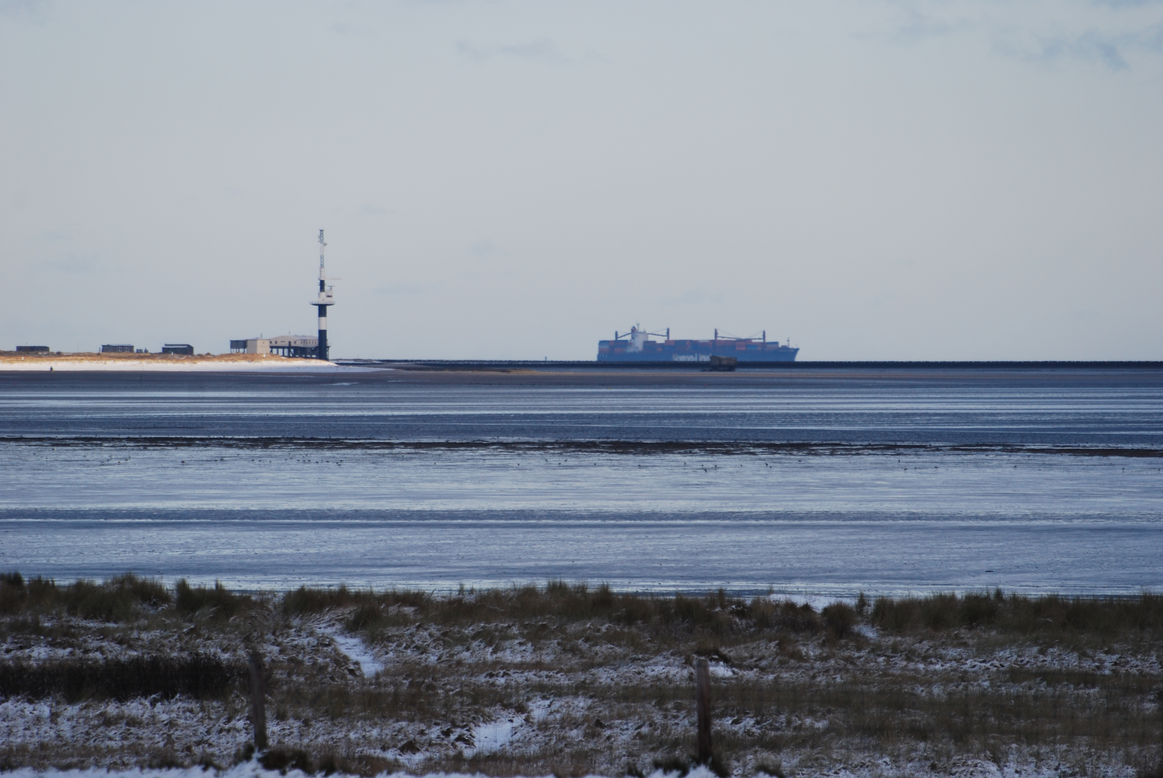 Seen from Schillig. In the background Minsener Oog. Schillig is a village in the Friesland district of Lower Saxony in Germany. It is situated on the west coast of Jade Bay and is 20 km (12 mi) north of the town of Wilhelmshaven.